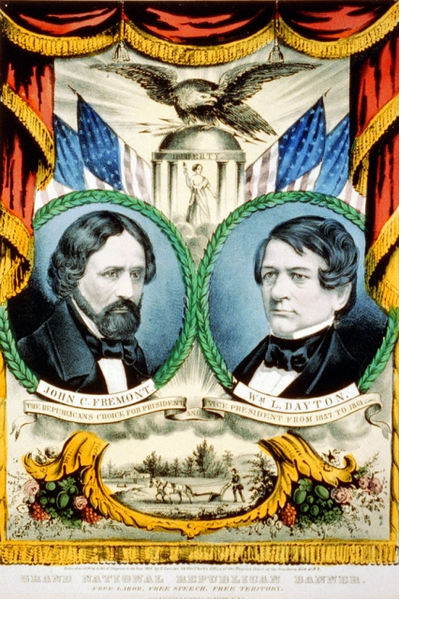 1856 Republican Campaign Poster of John C. Frémont and William Dayton.